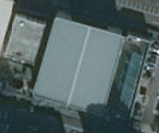 Satellite view